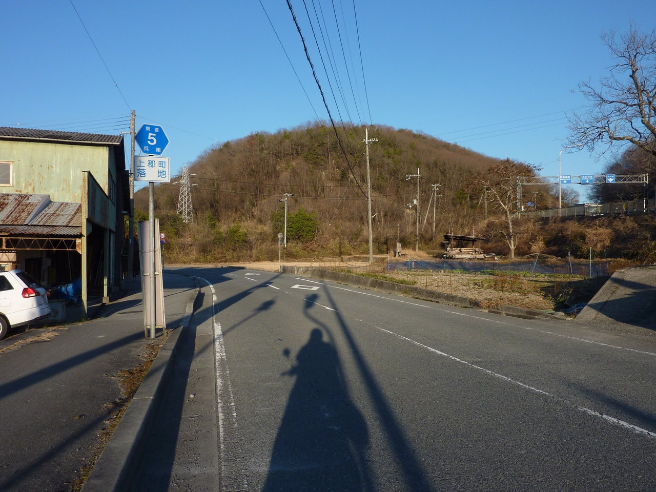 Hyogo Road No.5:Himeji-Kamigori Line (Kamigori Town, Hyogo, Japan)